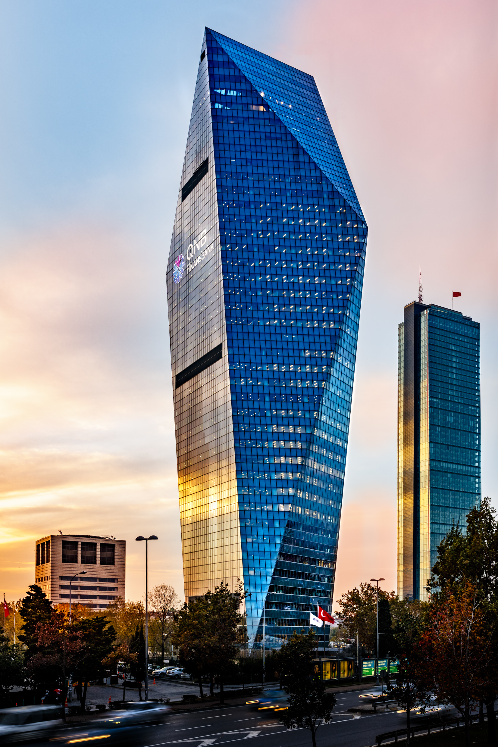 QNB Finansbank Kristal Kule